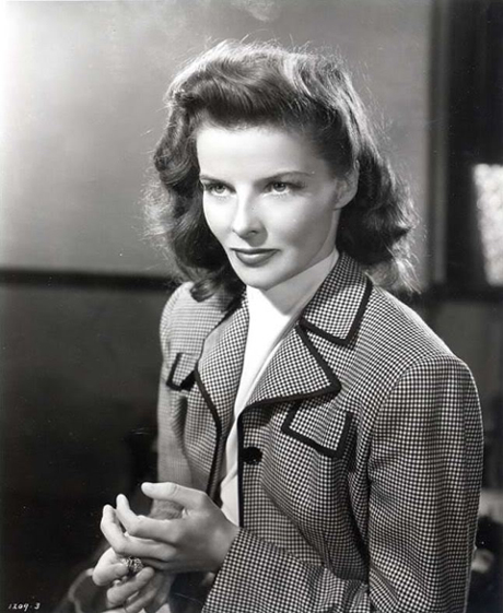 Publicity still of Katharine Hepburn in the 1942 film Woman of the Year. Such images were taken on set during filming, or as part of an organized photo-shoot, by a studio photographer. They were then disseminated to the media and the public to promote the film. (see Film still) This is definitely a publicity still as the quality is too high (for comparison, see this screenshot from the same scene) and a stock code can be seen in the left hand corner. Public domain explanation Despite the presence of a stock code, this photograph does not contain the copyright symbol ©, the word "Copyright", or the abbreviation "Copr.", as then required for copyright. By publishing a photograph without such a notice, under the terms of the 1909 Copyright Act (which was law until 1978) the image went into the public domain. If there is any chance that the photograph was copyrighted, under the terms of the 1909 Copyright Act it would have had to be renewed 28 years after publication. A search for copyright renewal records of 1970 ([1],[2]) reveal no trace that this occurred. Film industry author Gerald Mast has written: "According to the old copyright act, such production stills were not automatically copyrighted as part of the film and required separate copyrights as photographic stills ... Most studios have never bothered to copyright these stills because they were happy to see them pass into the public domain, to be used by as many people in as many publications as possible." (Film Study and the Copyright Law (1989) p. 87.)